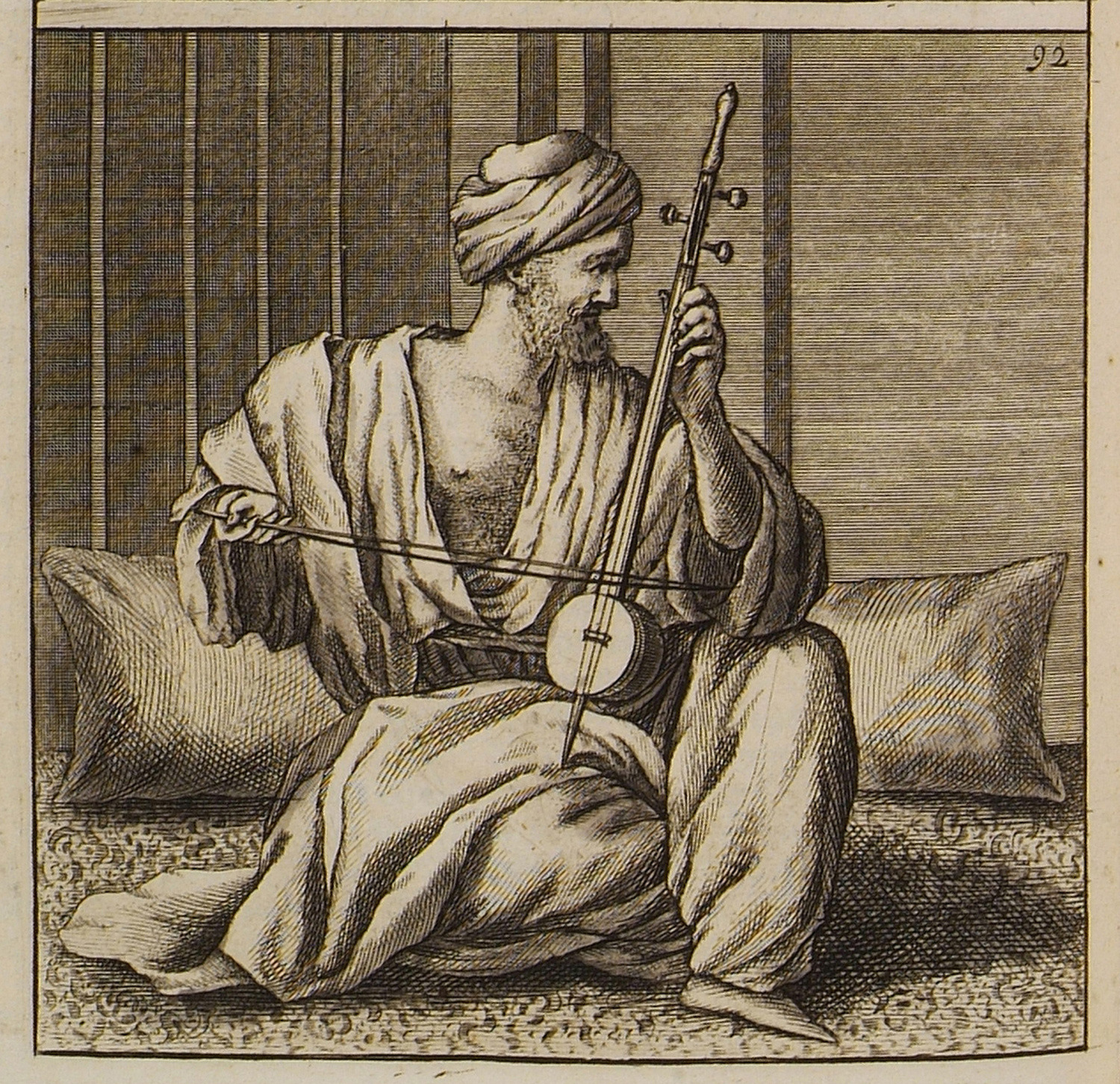 Homme juif (Cairo, Egypt) - BRUYN, Cornelis de. Voyage au Levant, c’est-à-dire, dans les principaux endroits de l’Asie Mineure, dans les isles de Chio, Rhodes, et Chypre etc., Paris, Guillaume Cavelier, 1714.